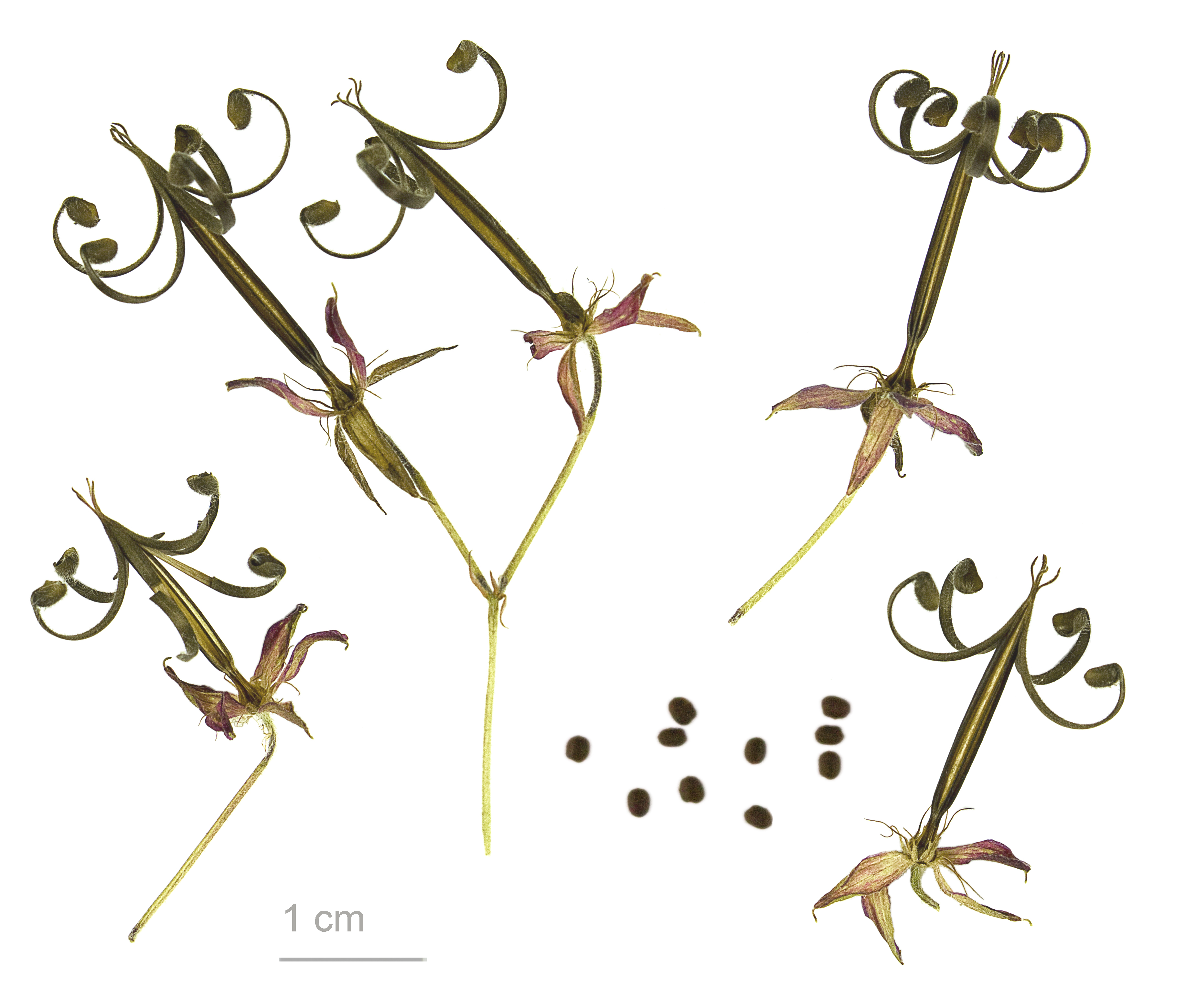 Geranium thunbergii , fruits and seeds